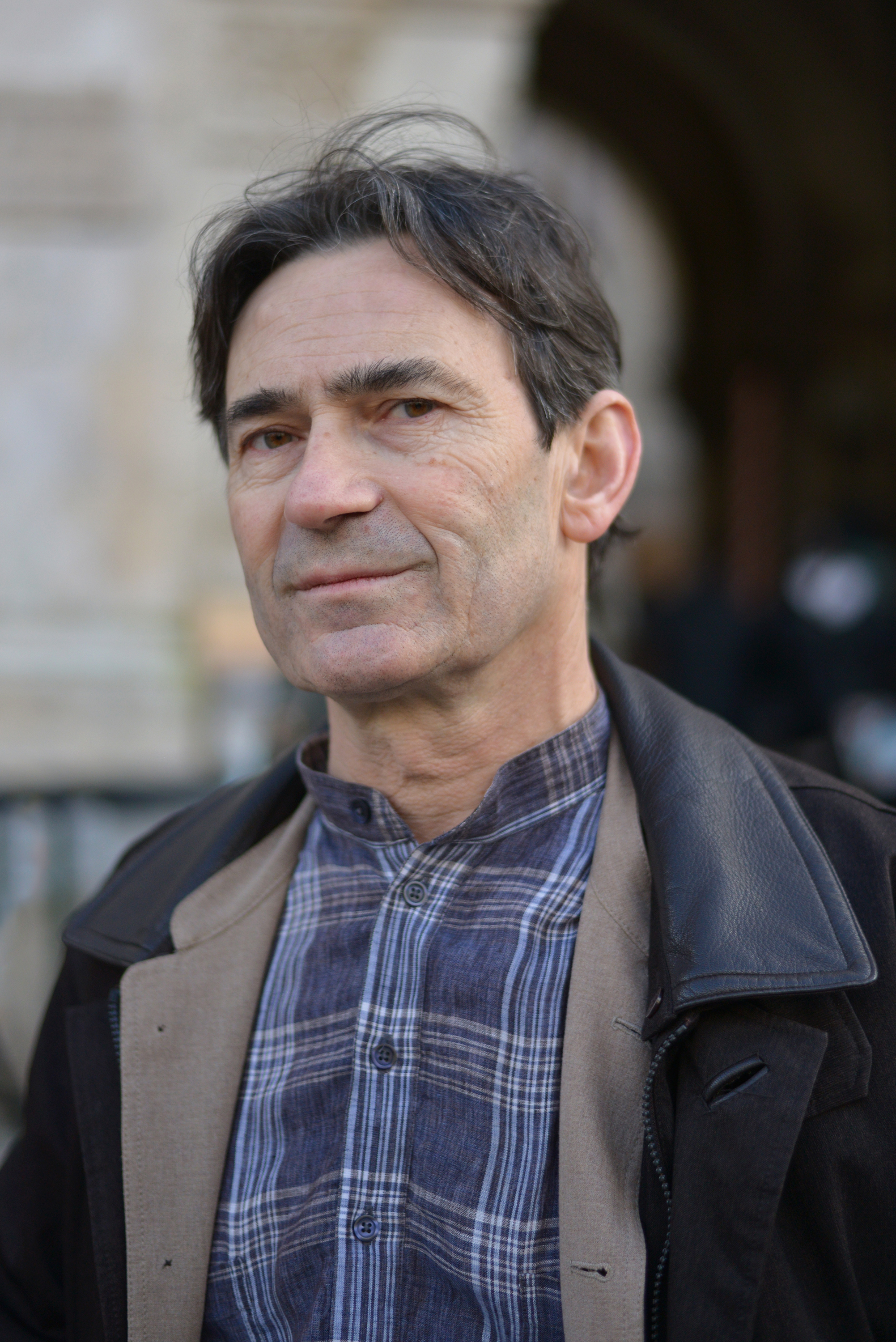 French comics writer Benoît Peeters at Angoulême International Comics Festival in 2015.